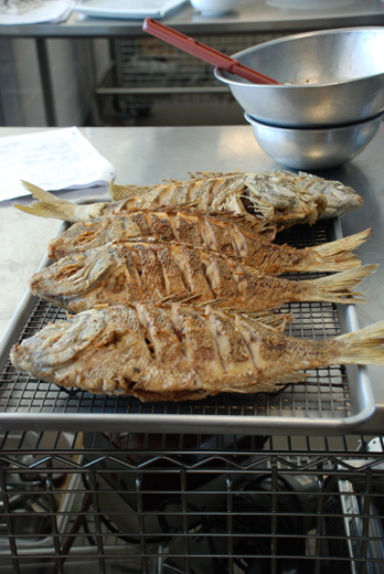 Flash fried whole scup, Stenotomus chrysops. Scup is often referred to as a “pan fish,” as its small size is excellent for pan frying or sautéing.